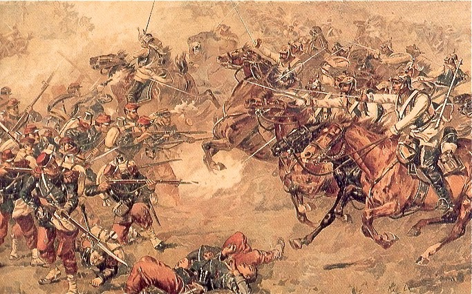 Bredow´s Brigade Ride in the Battle of Rezonville (16 August 1870). The success of the charge against the French artillery was possibly the last victorious ride in a battle in Western Europe.